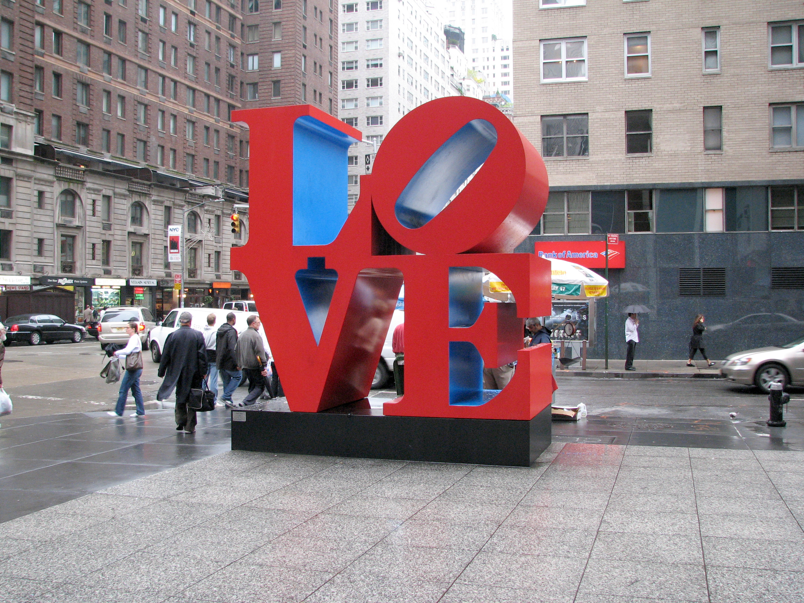 LOVE sculpture by Robert Indiana, on the corner of 6th Avenue and 55th Street in Manhattan, NY.